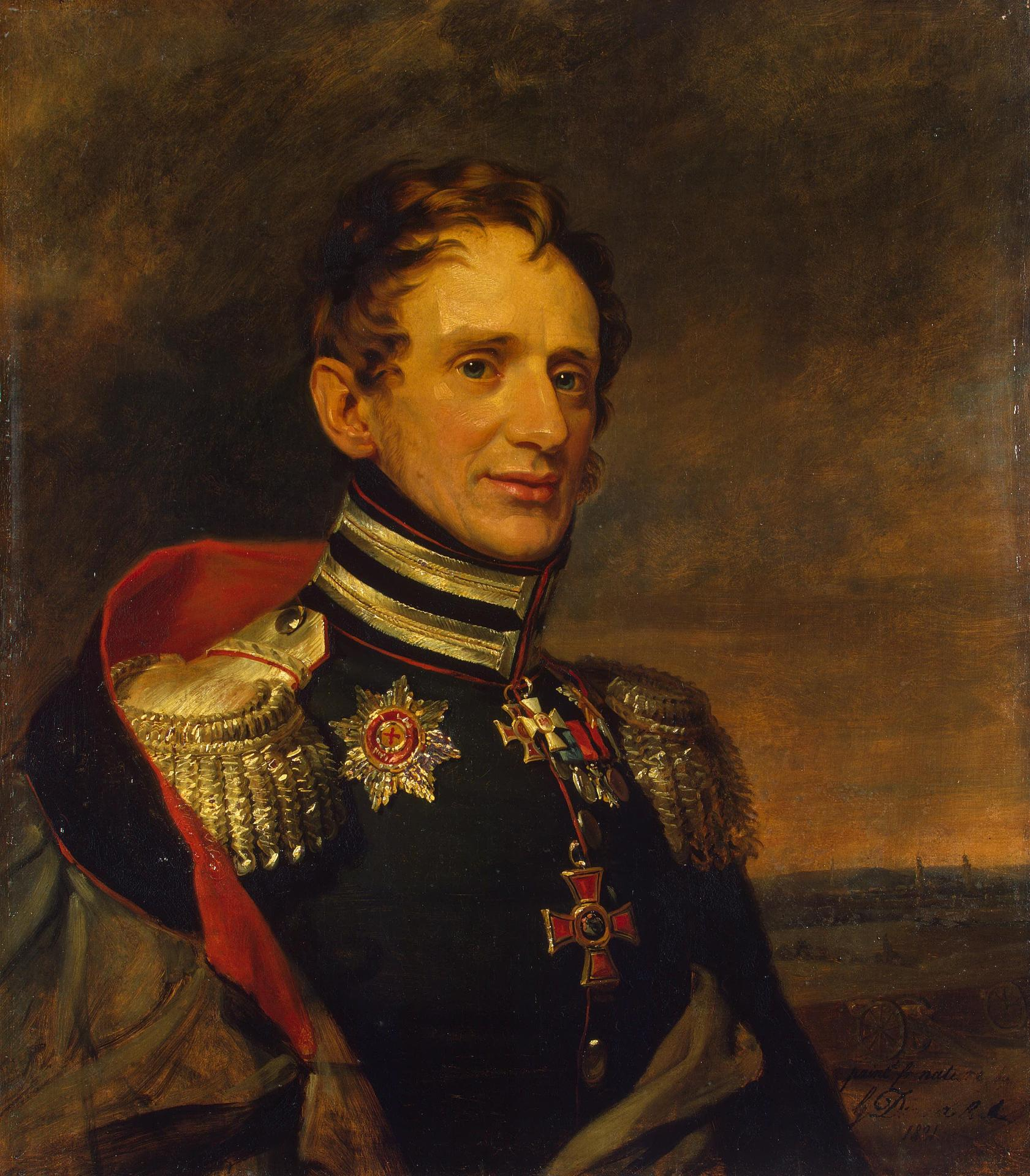 Yegor Karlovich Sievers 3-d (16.08.1779 – 18.06.1827) russian lieutenant general.